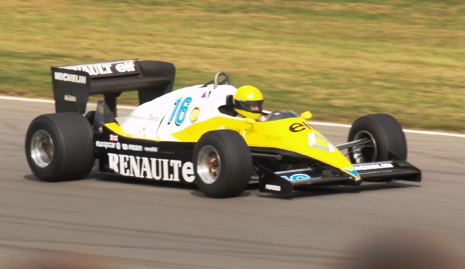 An ex-Eddie Cheever Renault RE40 Formula One car being demonstrated during the World Series by Renault event at Donington Park, September 2007.